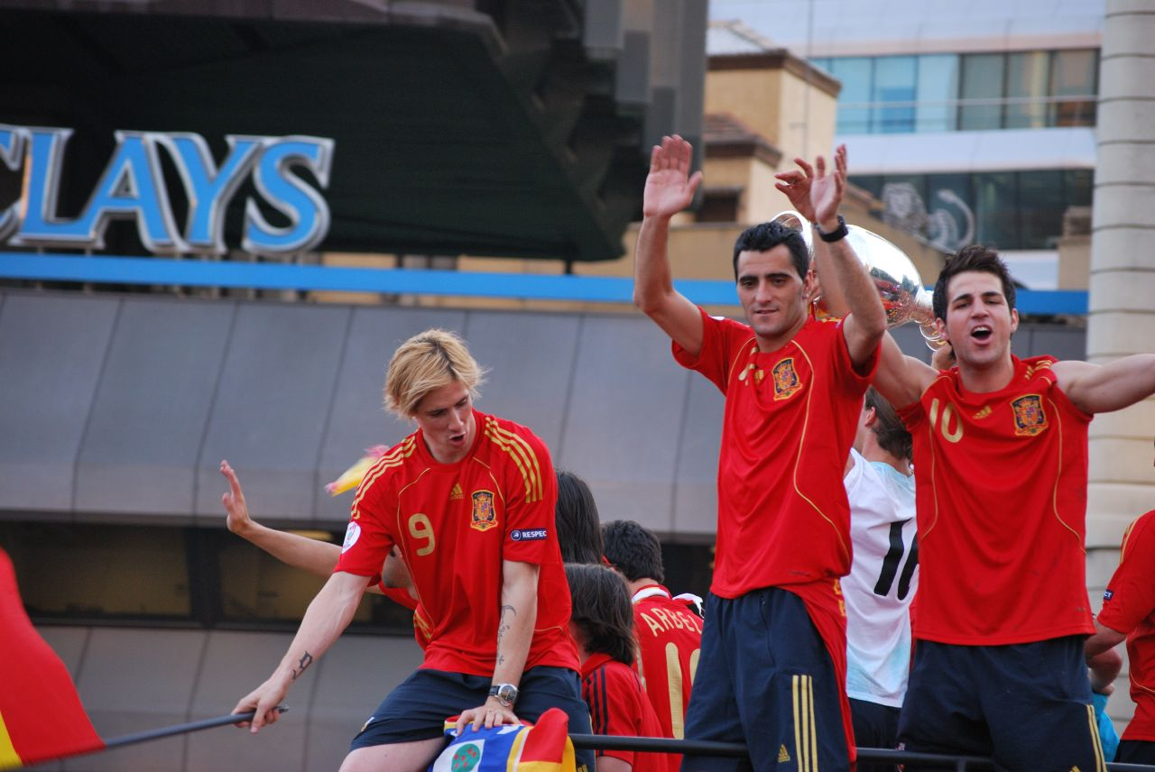 Cesc Fabregas, Dani Guiza and Fernando Torres celebrating Spain's Euro 08 championship